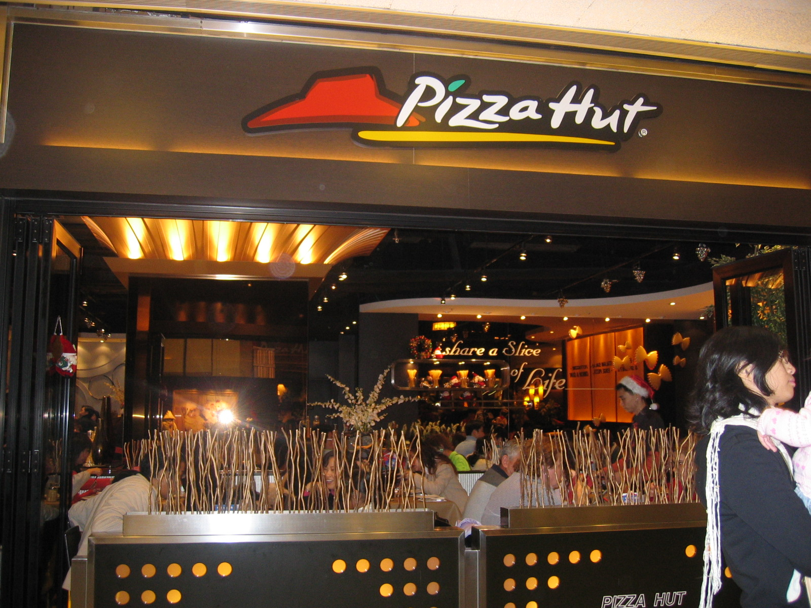 A Pizza Hut restaurant at Ocean Terminal, Hong Kong.